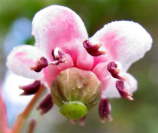 The flowers of Menzies' Wintergreen Chimaphila menziesii, Siskiyou Mountains west of Grants Pass, Oregon, USA. It's actually in the Heath / Azalea family.